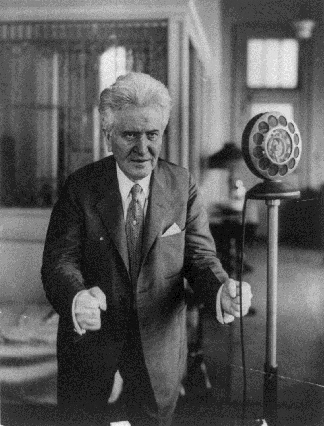 Robert La Follette, Sr., three-quarter length, facing front, standing at microphone, with clenched fists. La Follette was an American politician: US Congressman, US Senator from Wisconsin, Governor of Wisconsin, and presidential candidate.